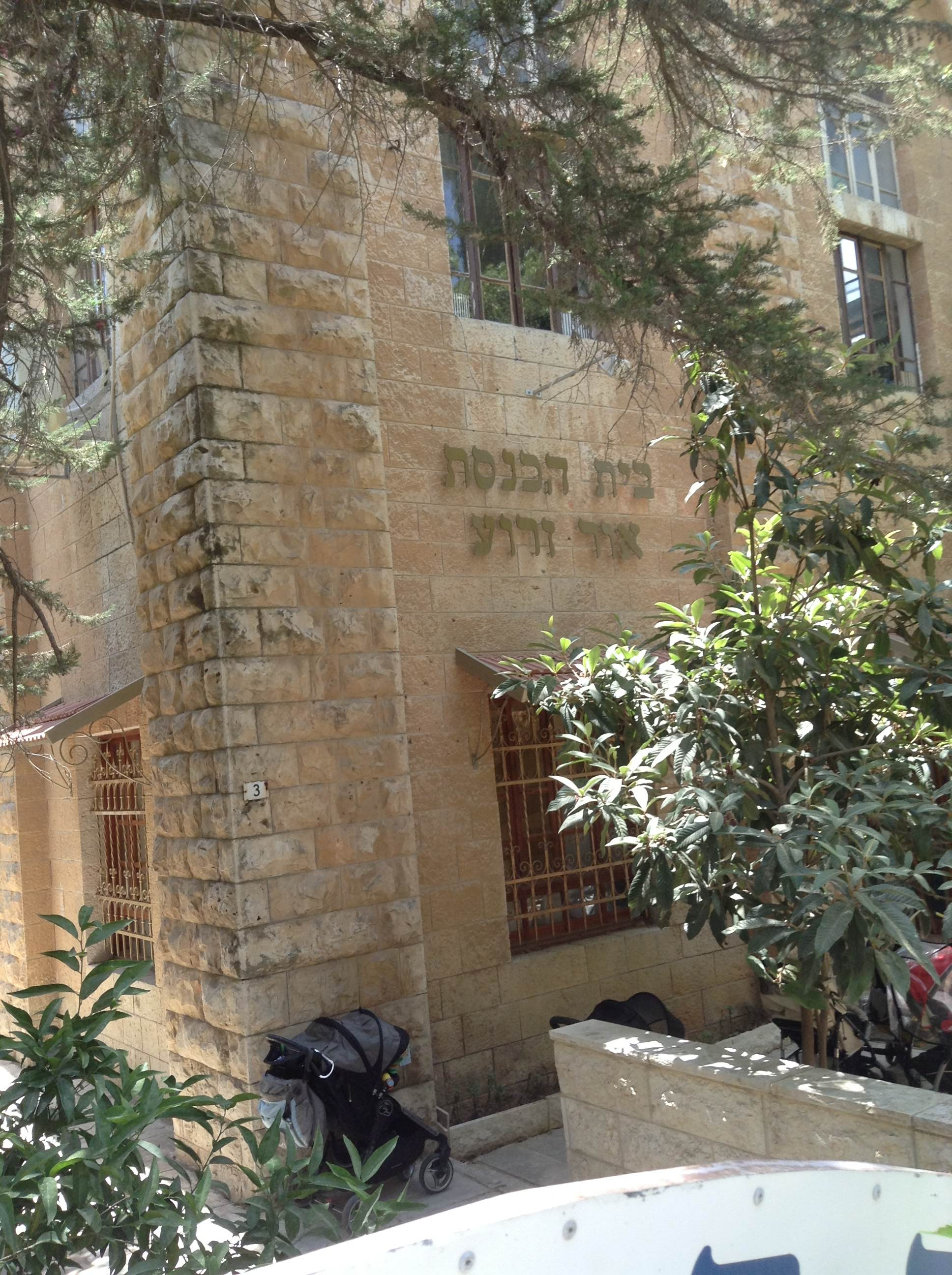 Or Zaruaa synagogue, founded by Rabbi Amram Aburbeh in Nahlat Ahim neighbourhood, Jerusalem, Israel, exterior photo of the building declared as a presevation site, on 3 Refali street.